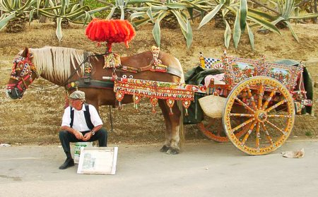 Author: Steve Rapaport Location: Agrigento, Sicily, 2002 Description: A traditional Sicilian cart from Agrigento, Sicily, 2003. Note that the cart appears slightly raised where it is attached to the horse. This is because the cart was traditionally drawn by donkeys, which are of a slightly lower stature to that of a horse.